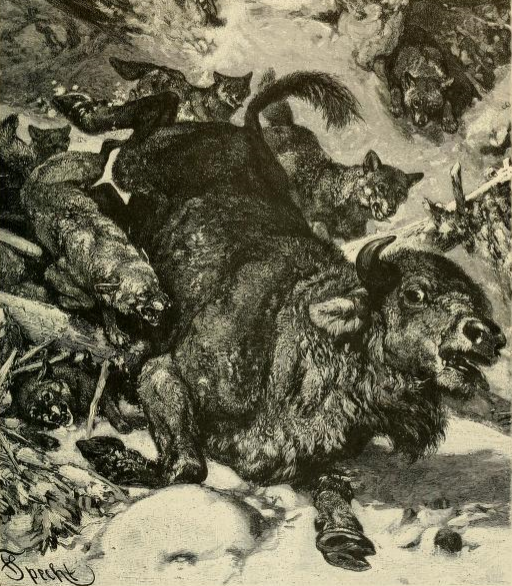 European wolves attacking a wisent